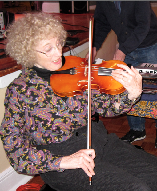 rehearsal photo of Priscilla McLean on a concert tour, Georgia College and State University, Milledgeville, GA. Photo by Barton McLean (husband) who gives his permission